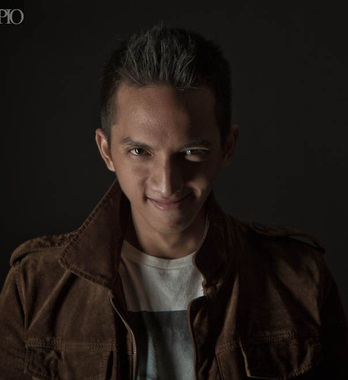 Ge Pamungkas